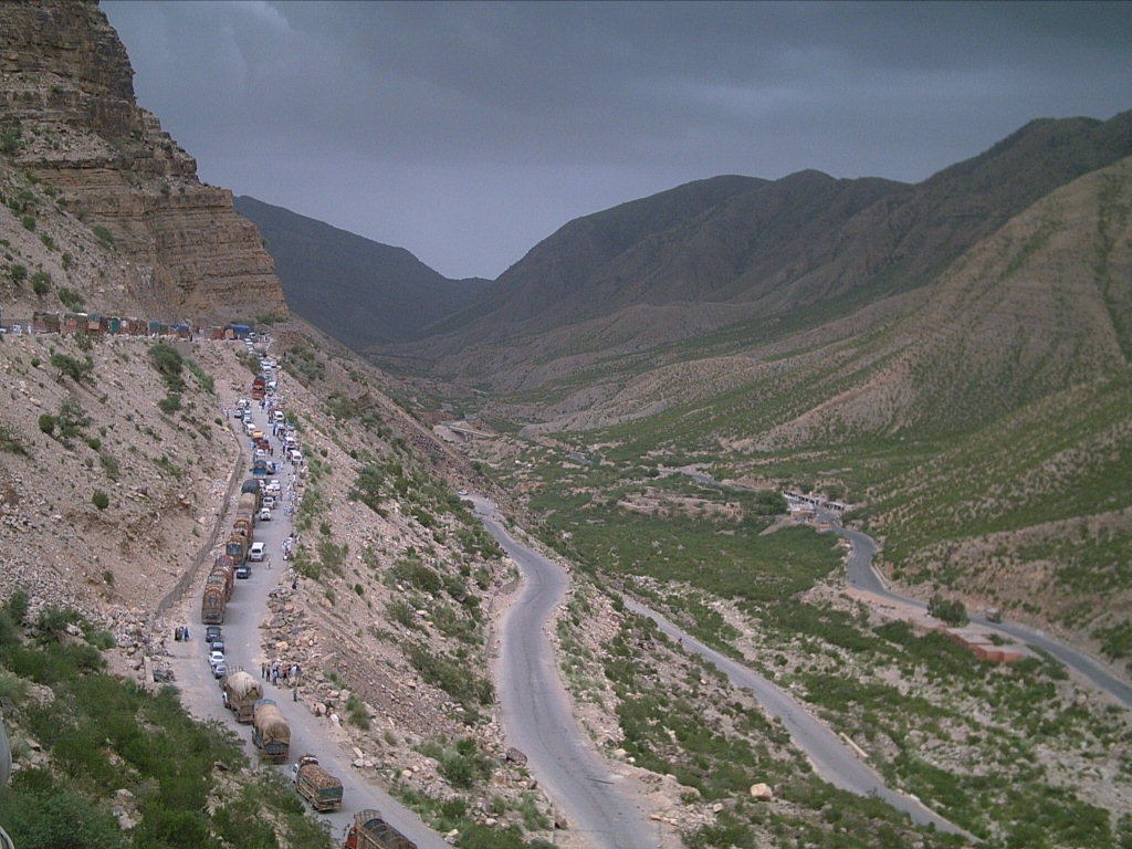 Road Block due to landslide at Girdu on the way to Fort Munro